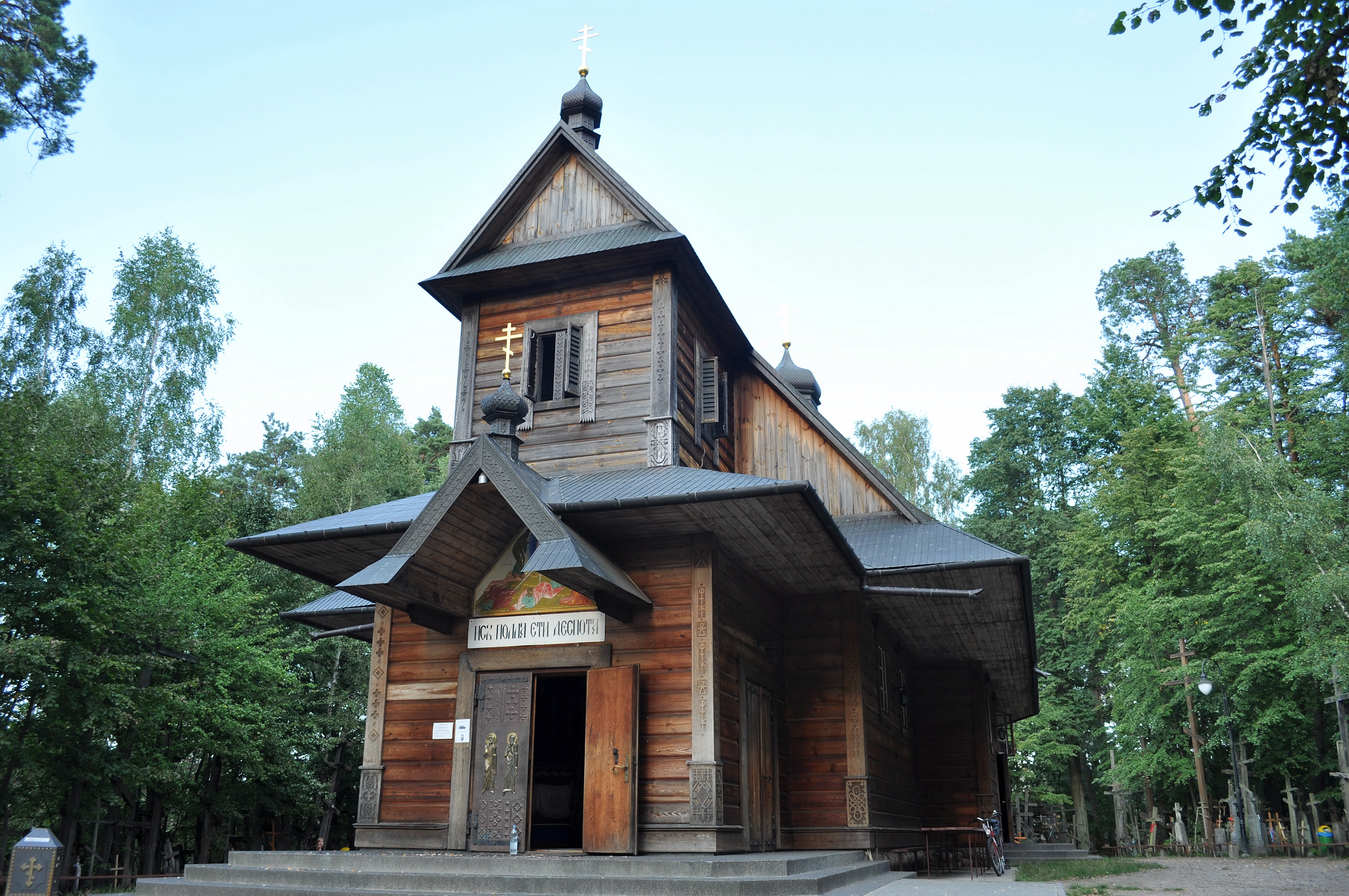 Wooden church in Grabarka